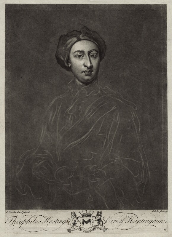 Portrait of Theophilus Hastings, 9th Earl of Huntingdon (1696–1746), English peer.